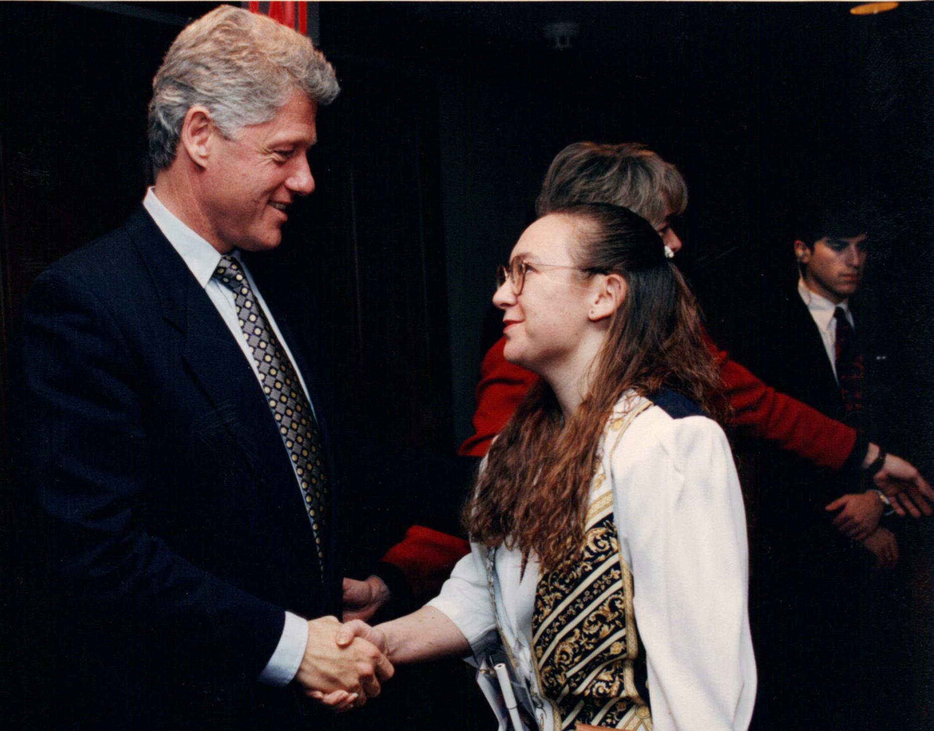 Photograph of President William Jefferson Clinton on Jaunary 14, 1995 in Cleveland, Ohio at The White House Conference on Trade and Investment in Central and Eastern Europe. He is at a meet and greet and this photo shows the President's "body man" Elliott Frutkin standing by and screening the line approaching the President (far right).